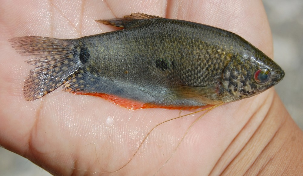 Trichogaster trichopterus, 80 mm SL, from Banyumas, Central Java, Indonesia